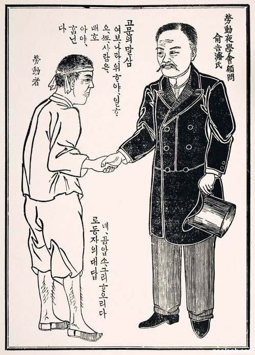 The first woodcut manhwa by an unidentified painter, printed in Gamgak Nodong Yahak Dokbon in 1908